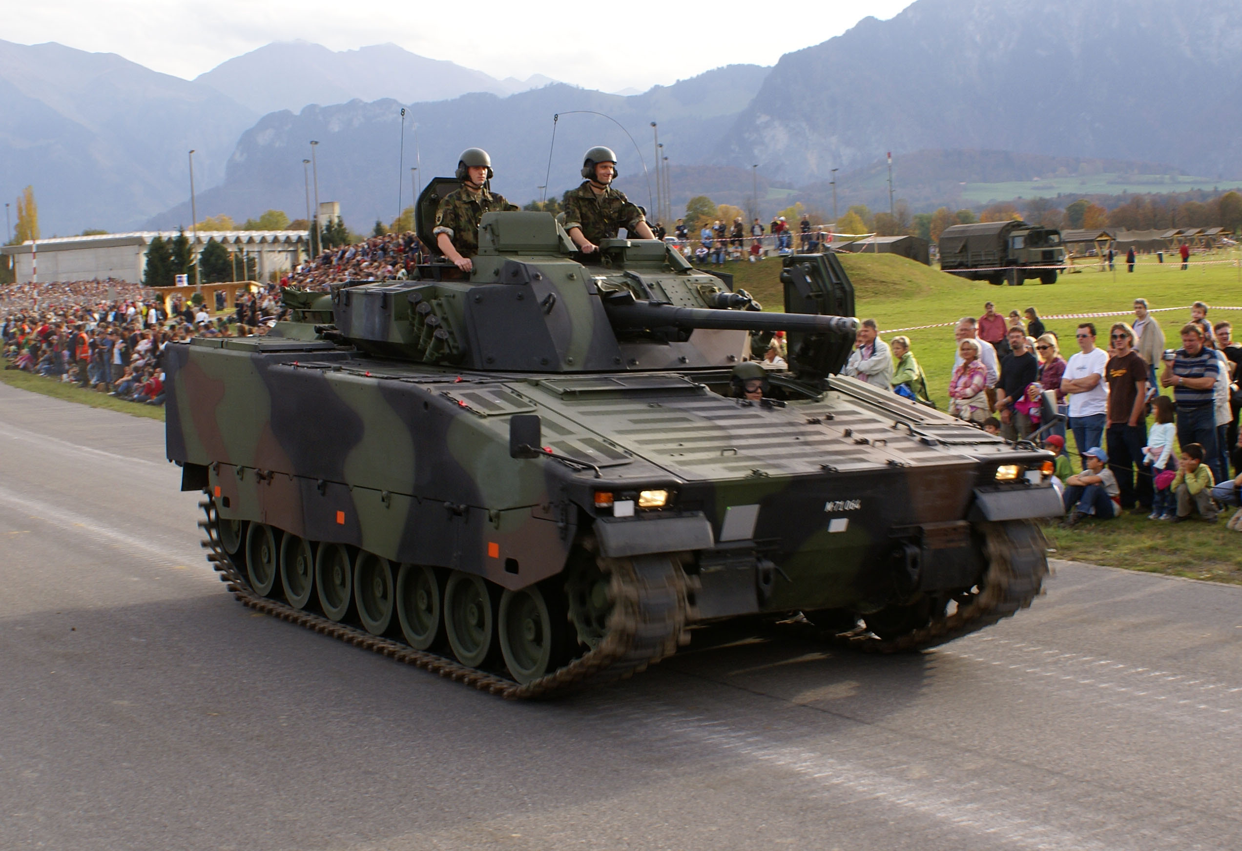 Swiss Army. APC Spz 2000 (Hägglunds Combat Vehicle 90). Participating in the "Steel Parade" of the 2006 Army Days, Thun.